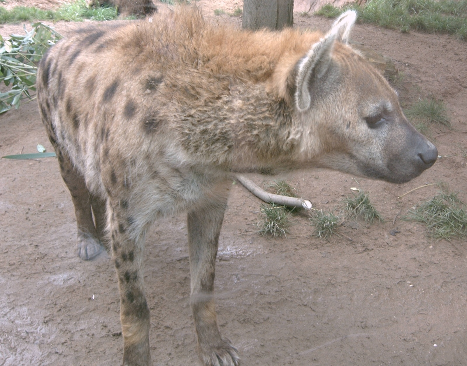 Crocuta crocuta